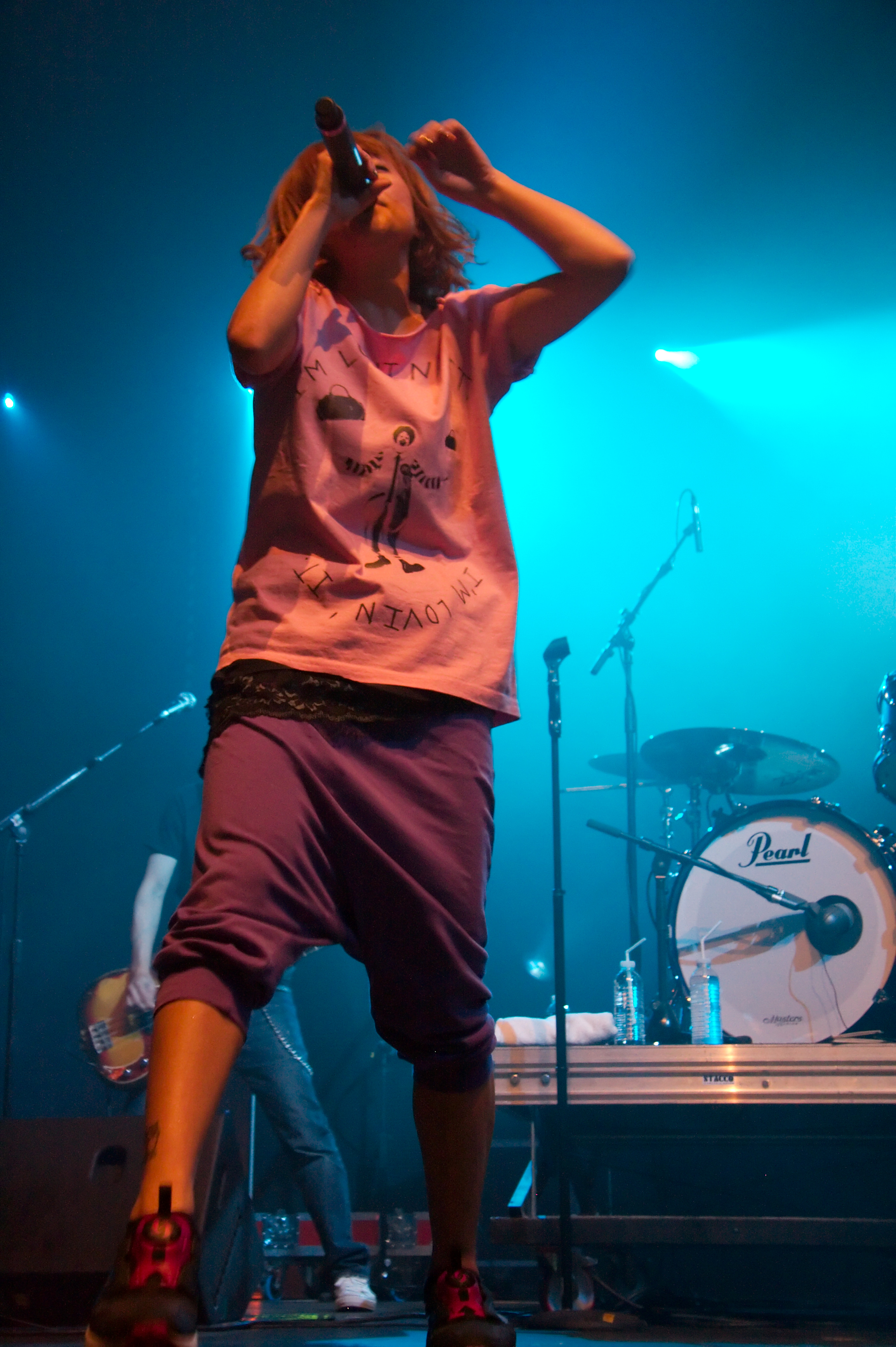 Puffy AmiYumi live at Japan Expo 2009 (Paris, France)